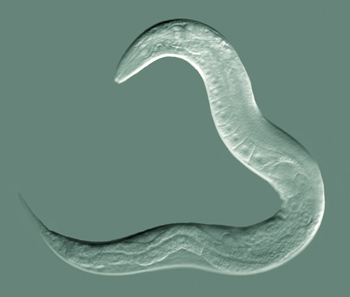 Caenorhabditis elegans, adult hermaphrodite